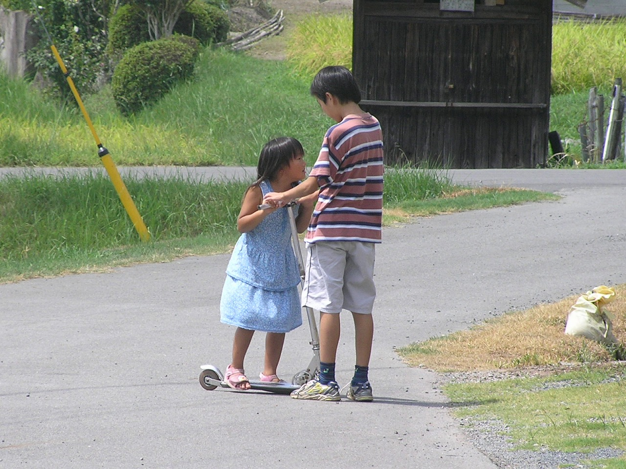 kyoudai-兄妹